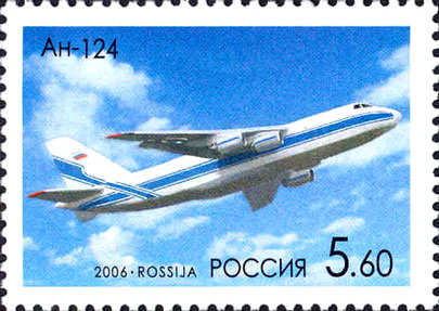 Airplanes of the O.K.Antonov design office. On the occasion of the 100th birth anniversary of O.K.Antonov, the aircraft designer.